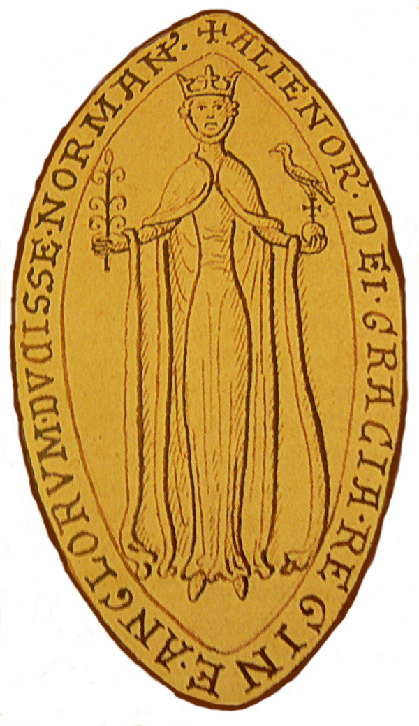 Seals of Eleanor of Aquitaine